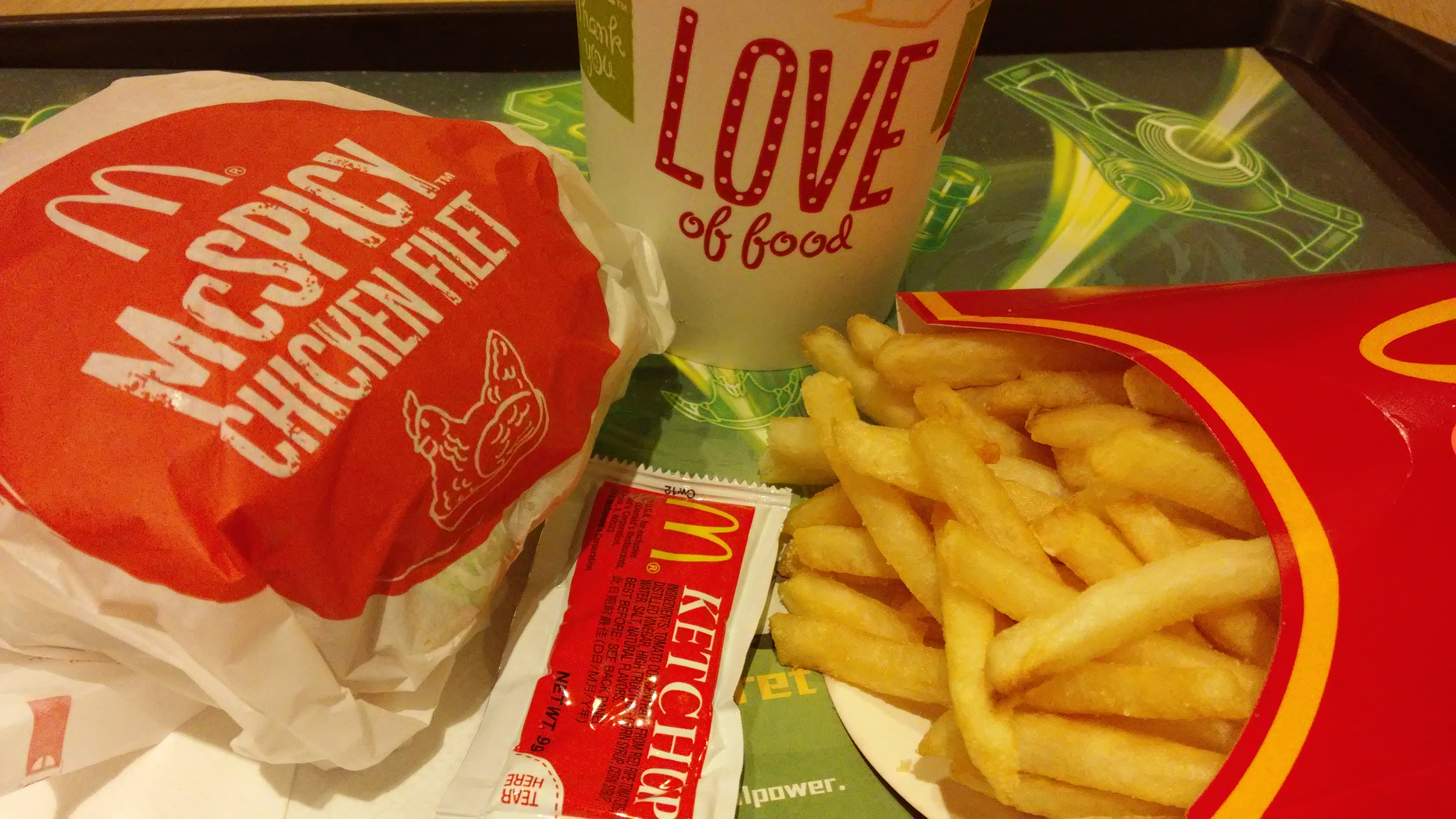 Kln Bay Telford Plaza McDonalds Restaurant food McSPICY Chicken Filet French fries